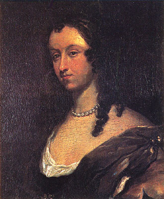 Aphra Behn by Mary Beale.